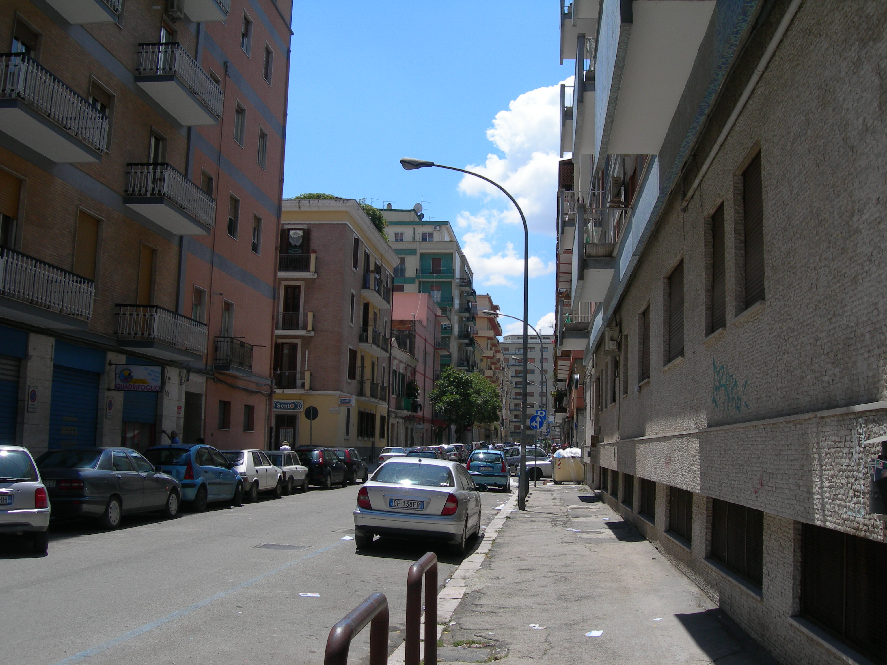 Trento Street in Foggia